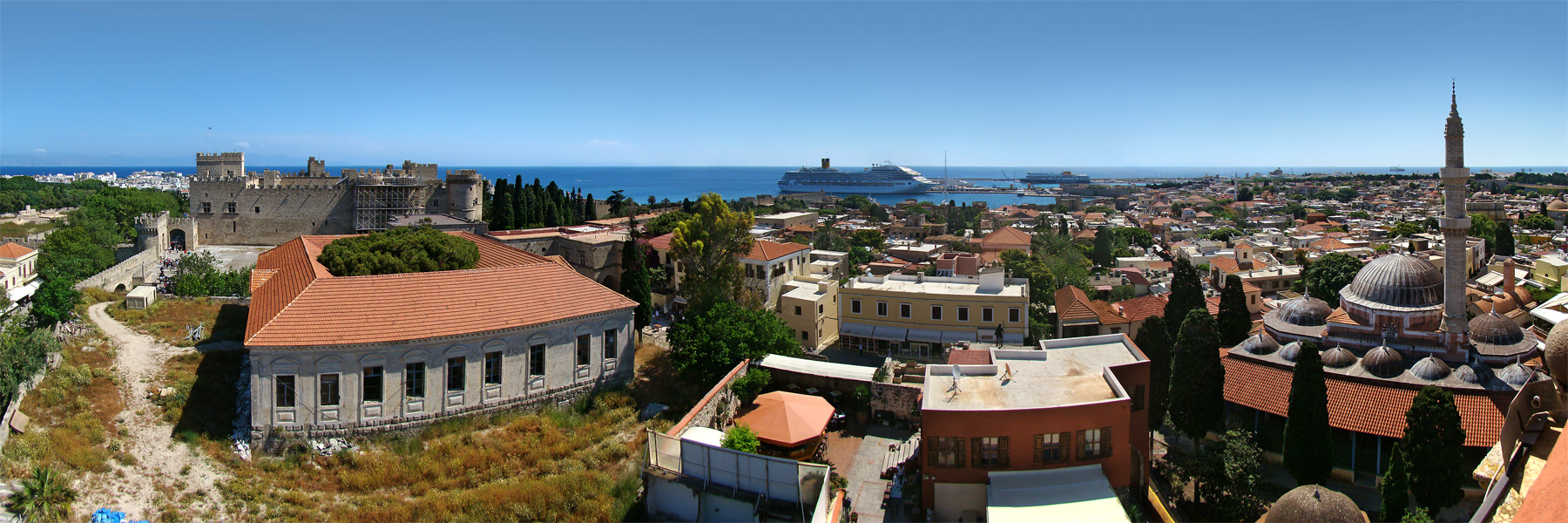 Rhodes, Greece. Panorama seen from the top of the Clock Tower, covering 135° from the north to the southeast. From left to right: the Palace of the Grand Master of the Knights of Rhodes, the Kolona Harbour, the mosque of Süleyman.